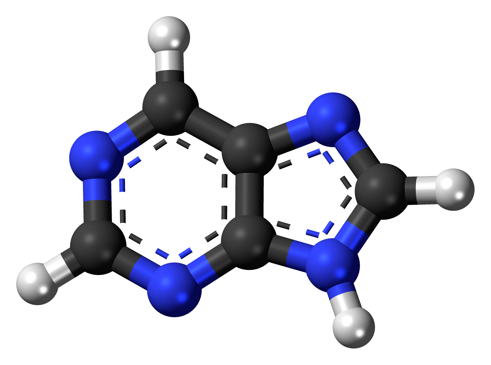 Ball-and-stick model of the purine molecule, a nitrogen heterocycle. Many different purine derivatives occur in nature. Colour code: Carbon, C: black Hydrogen, H: white Nitrogen, N: blue